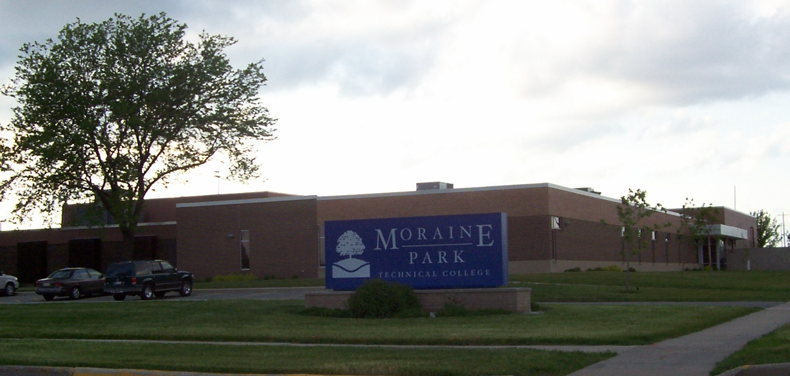 The Moraine Park Technical College campus in Beaver Dam, Wisconsin, USA along U.S. Route 151.